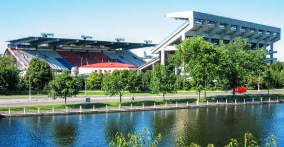 Frank Clair Stadium at Lansdowne Park in Ottawa, Ontario, Canada, before its 2013-2014 overhaul.